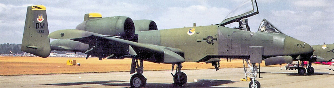 357th Tactical Fighter Training Squadron - Fairchild Republic A-10A Thunderbolt II - 76-0532